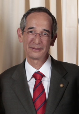 President Barack Obama and First Lady Michelle Obama pose for a photo during a reception at the Metropolitan Museum in New York with Alvaro Colom Caballeros, President of the Republic of Guatemala.